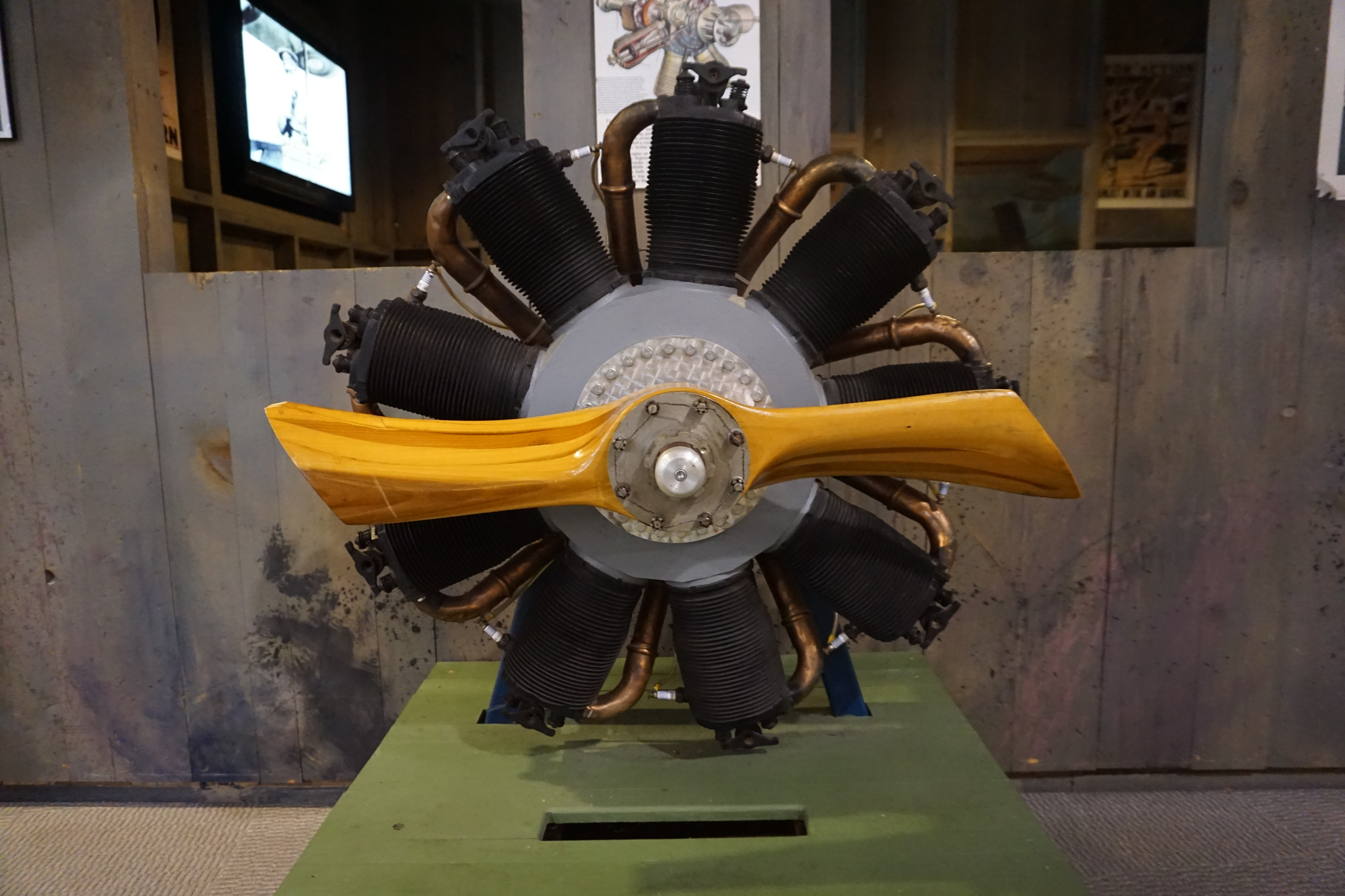 A Le Rhône radial engine on display at the Frontiers of Flight Museum at Dallas Love Field in Dallas, Texas (United States).